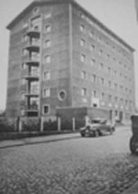 Hotel Tammer in Tampere, Finland, in 1929